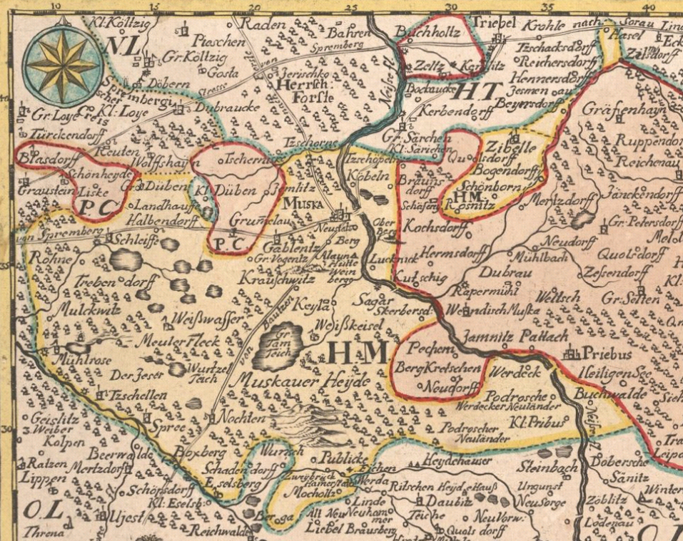 Crop from the map Image:Priebussischer Creis nebst Herrschaft Muska.png.